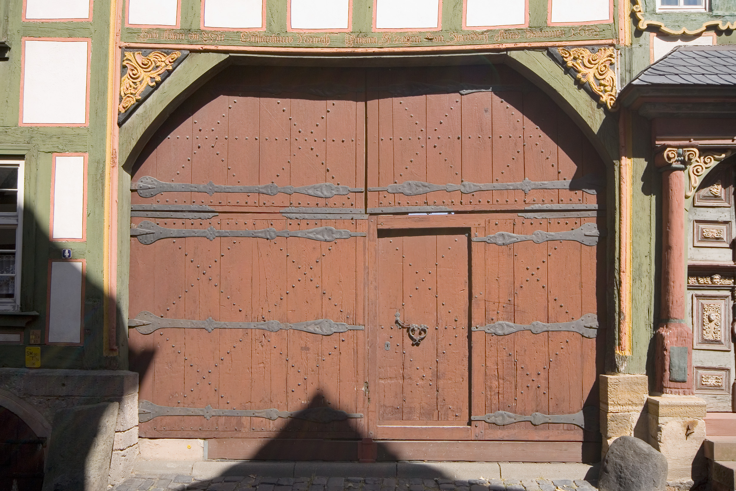 Alsfeld: Neurath's house, door of the drive